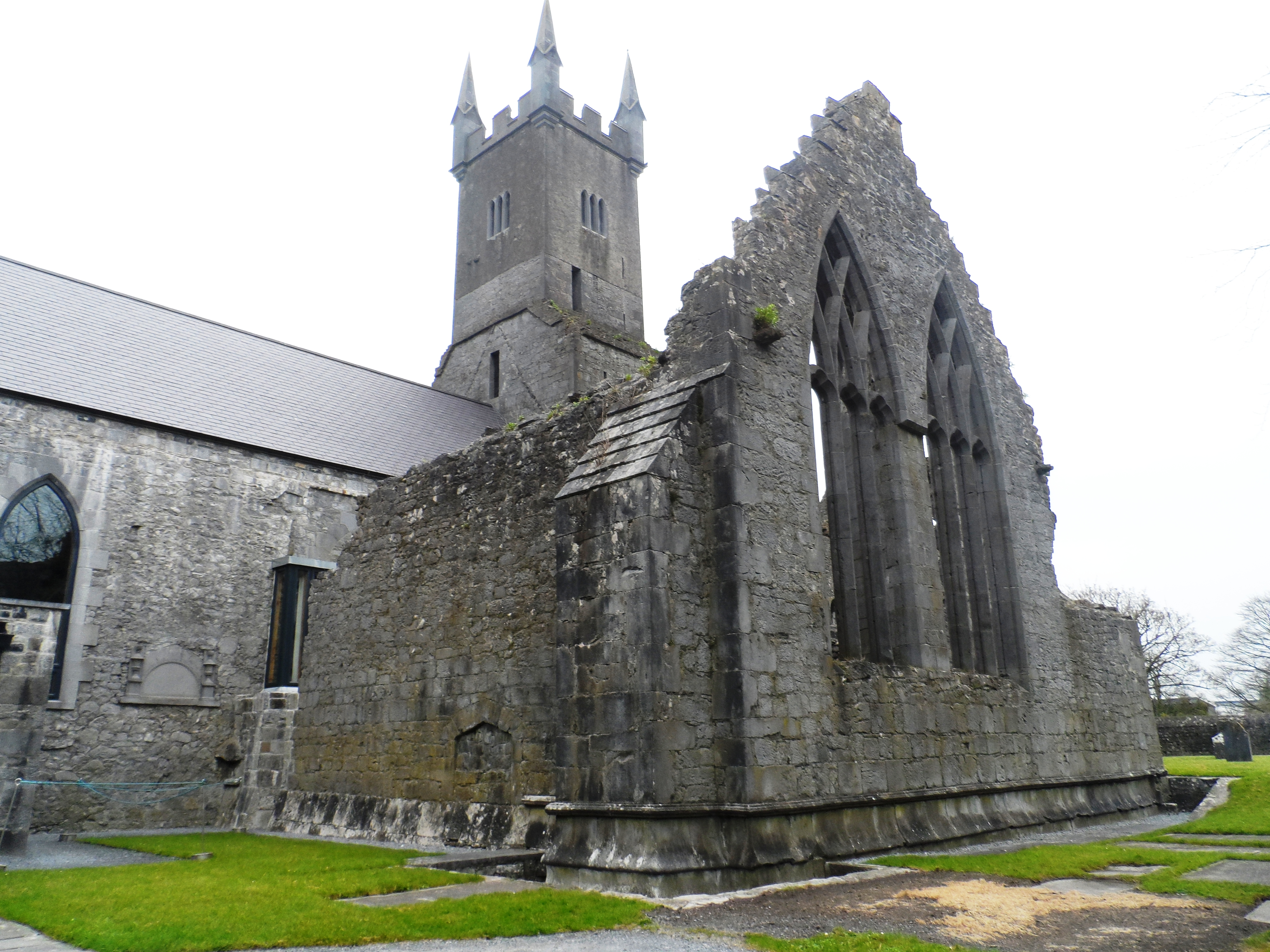 church in Ennis